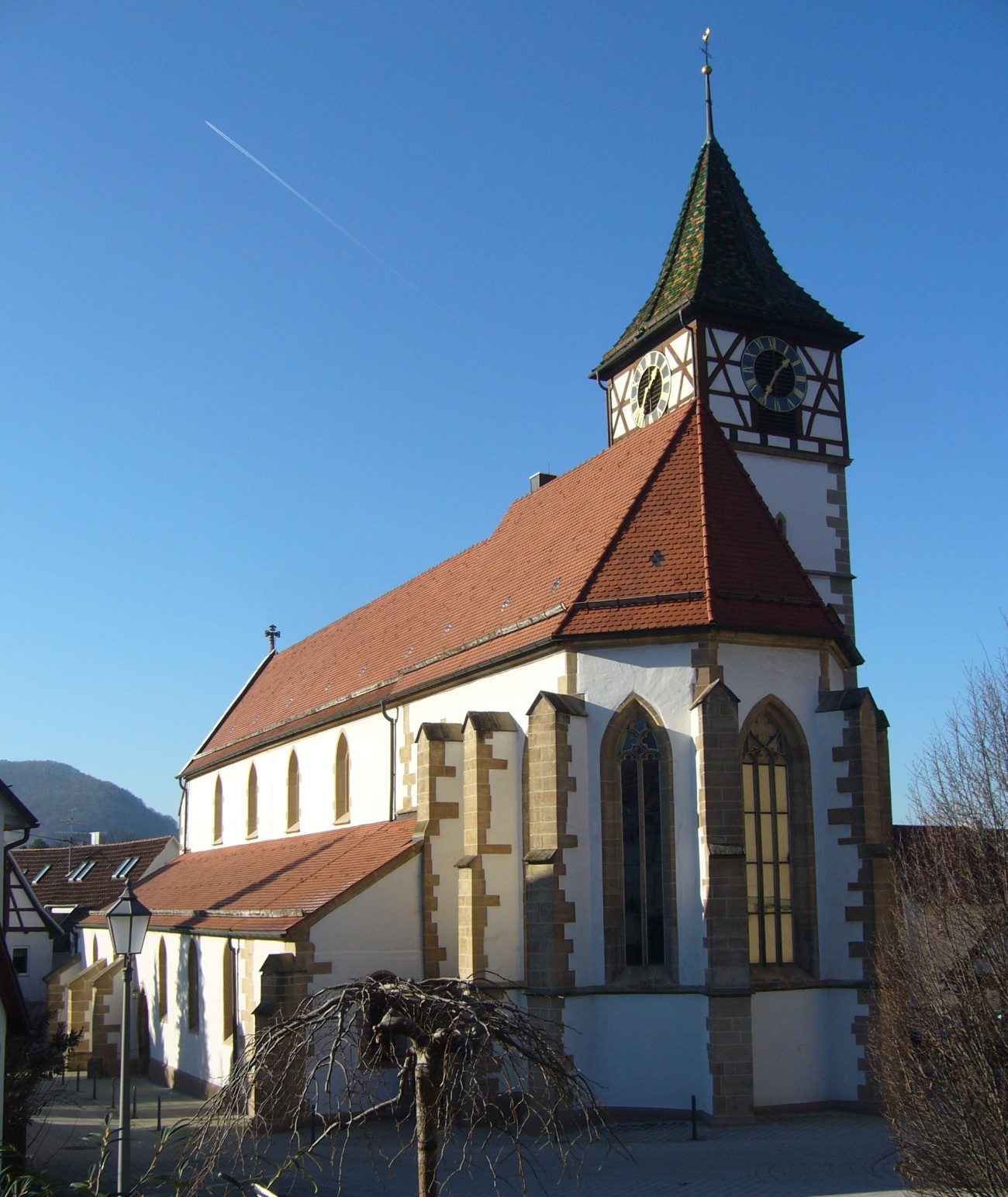 Church St. Martin in Neuffen, Germany, East Side